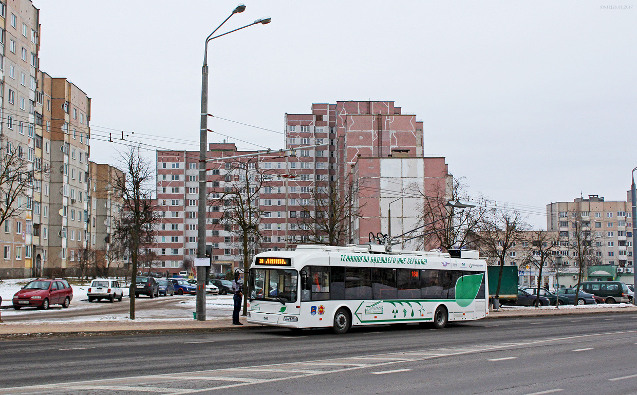 BКМ 32100D trolleybus in Hrodna